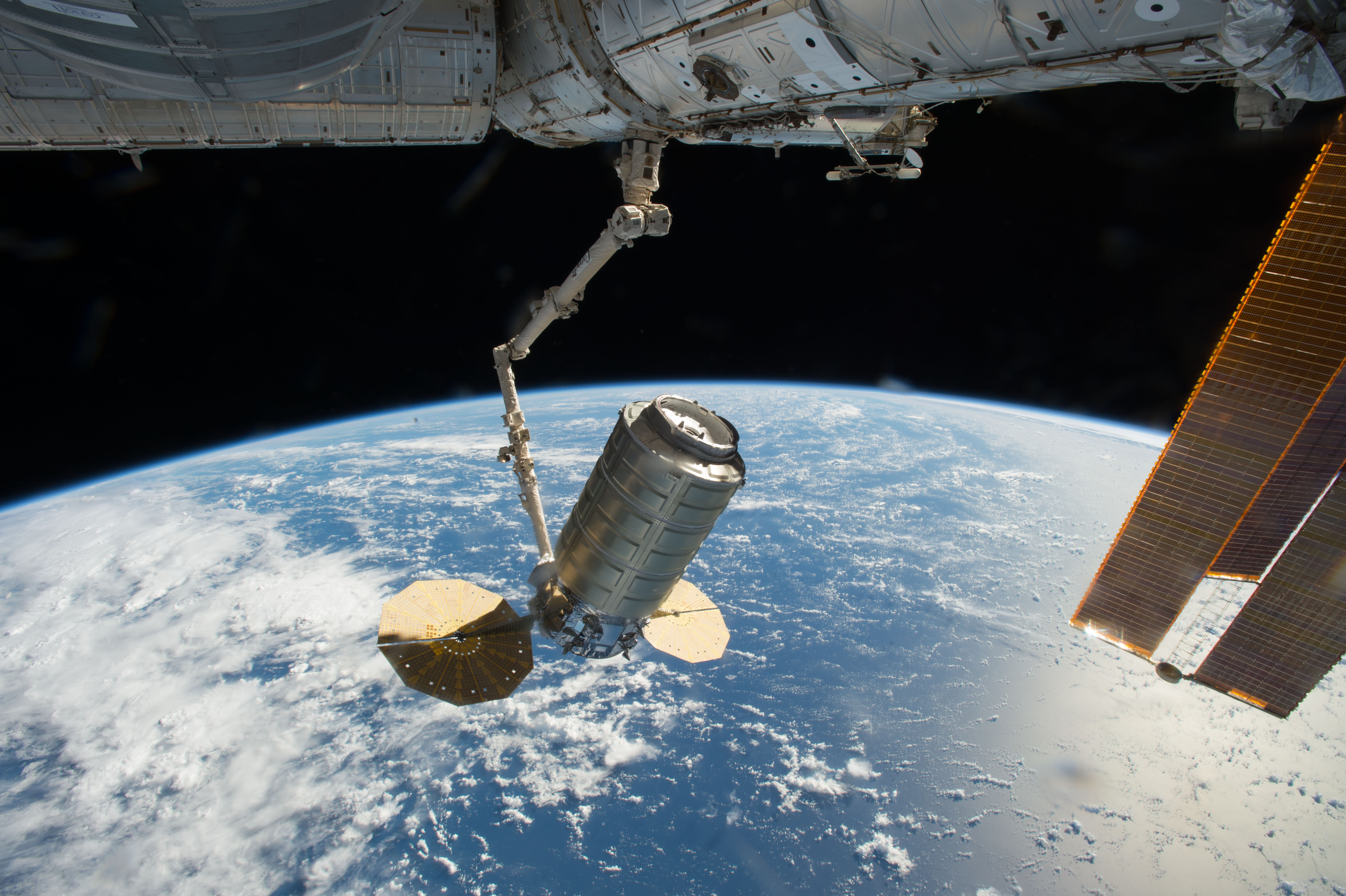 Orbital ATK's Cygnus cargo spacecraft is captured using the Canadarm2 robotic arm on the International Space Station. Packed with more than 5,100 pounds of cargo and research equipment, the vehicle made Orbital ATK's fifth commercial resupply flight to the station.